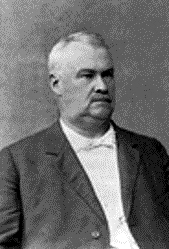 Charles H. Mansur, US Representative from Missouri